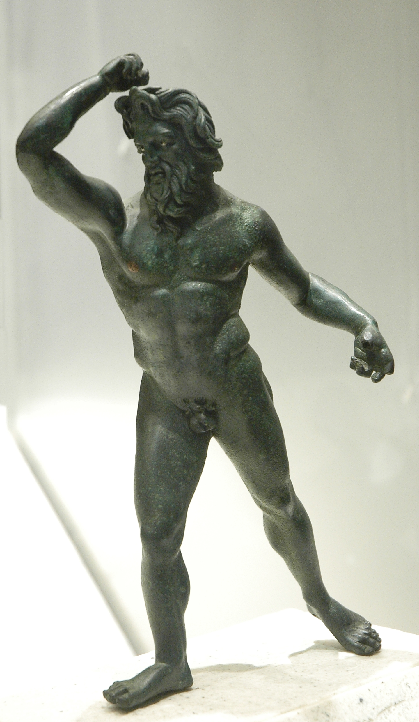 Gigant (?), bronze statuette from Asia Minor, third quarter of the 2nd century BC.